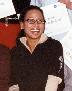 Swedish singer and activist Alice Bah, as released by image creator F.U.S.I.A.Place: Skandia HQ, Sveavägen 44, Stockholm, Sweden